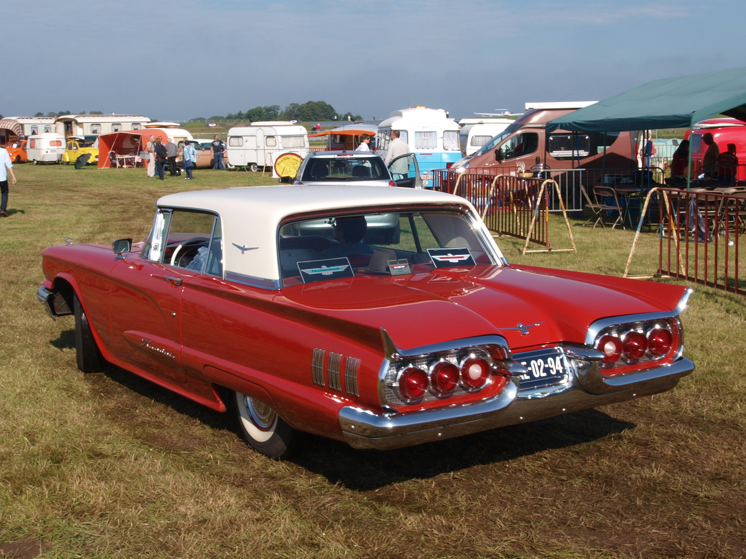 Photographed at the International Oldtimer Fly-In, Belgium.